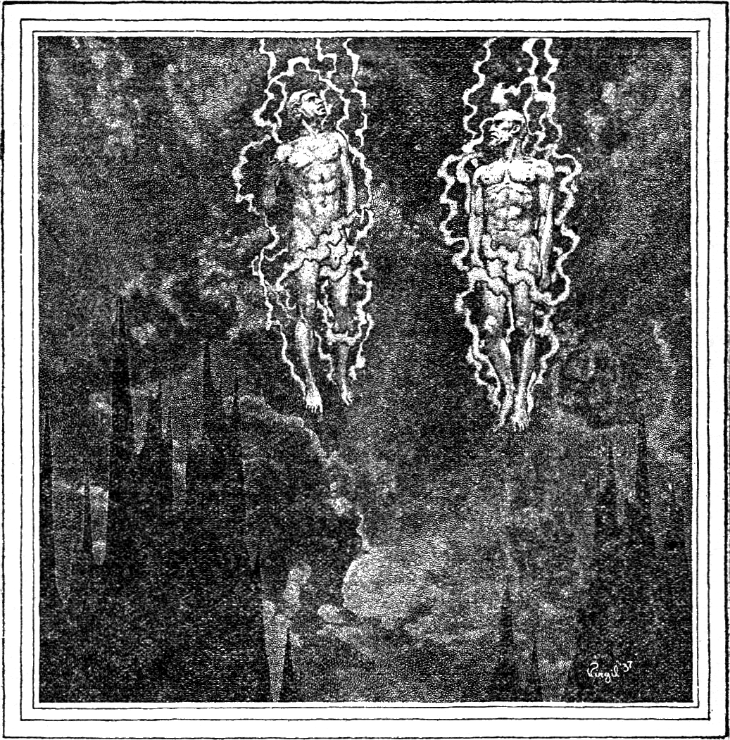 Main illustration for the story "Beyond the Wall of Sleep". Internal illustration from the pulp magazine Weird Tales (March 1938, vol. 31, no. 3, page 331).